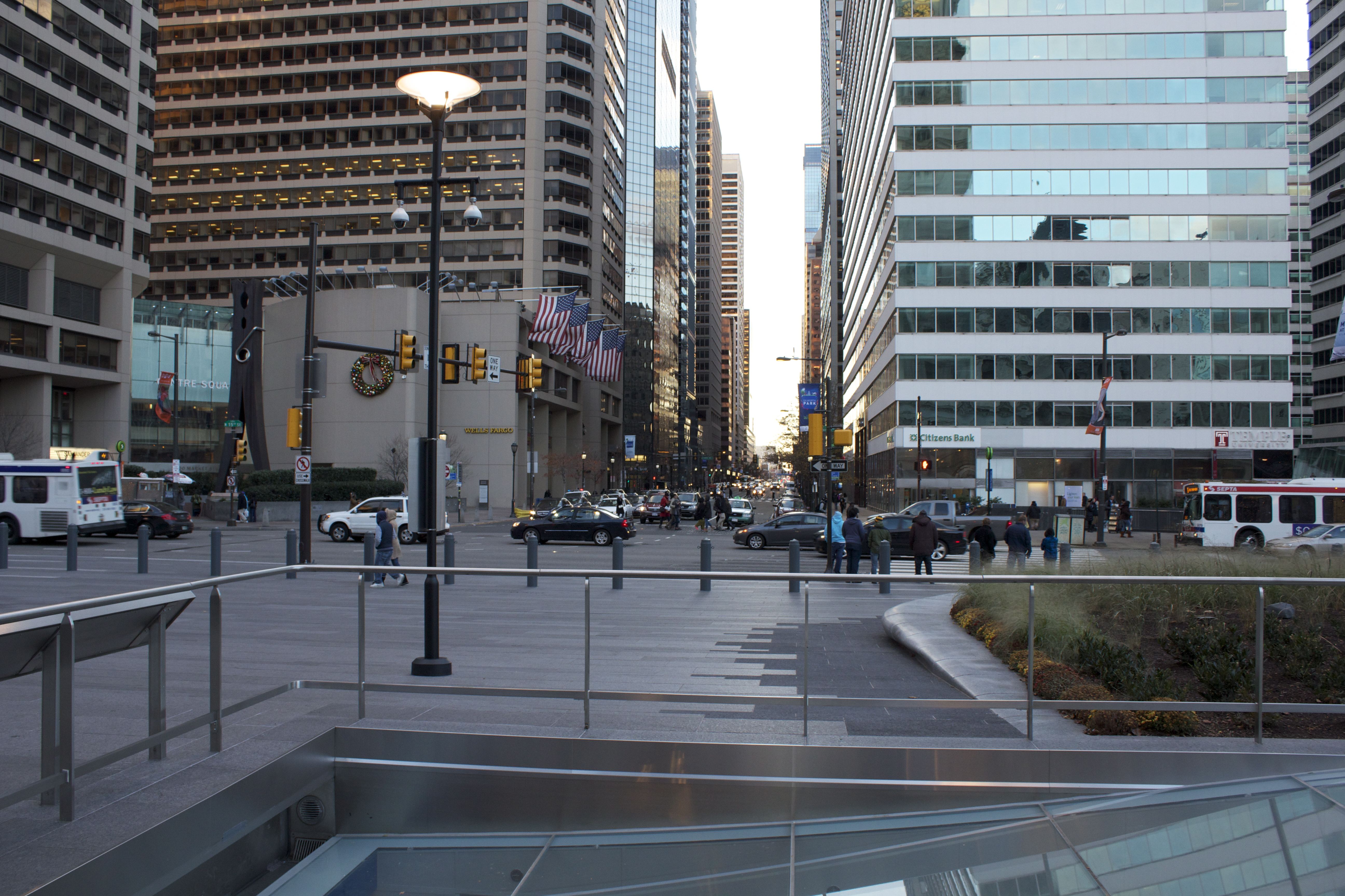 Market Street in Philly